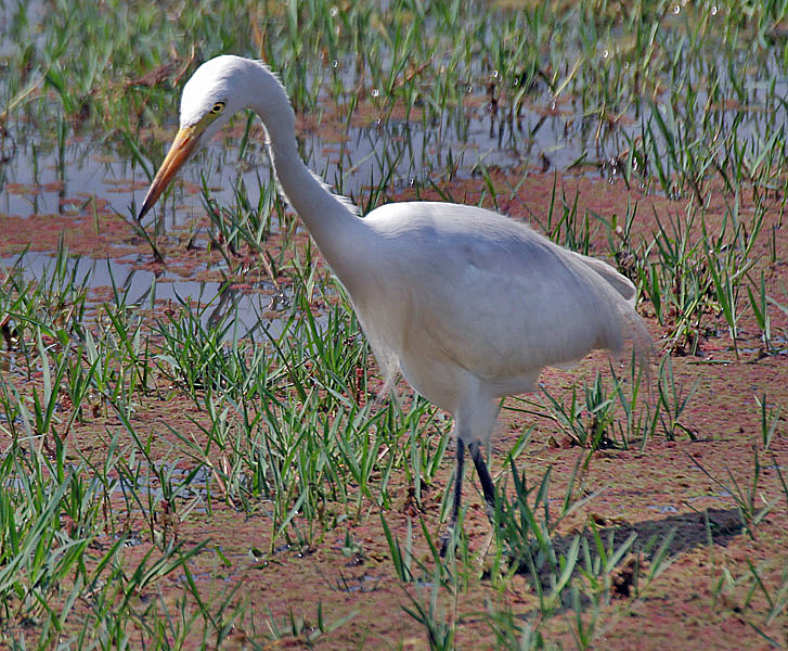 Intermediate Egret (Mesophoyx intermedia) at Keoladeo National Park, Bharatpur, Rajasthan, India